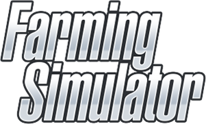 Logo of Farming Simulator